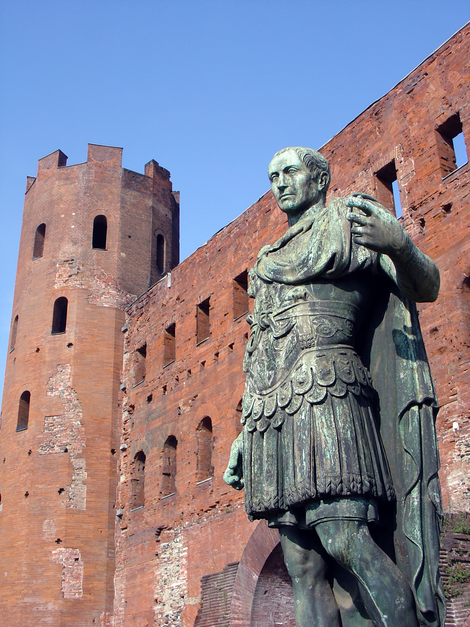 Porte Palatine (Roman ruins) in Turin, with bronze statue (Caesar).